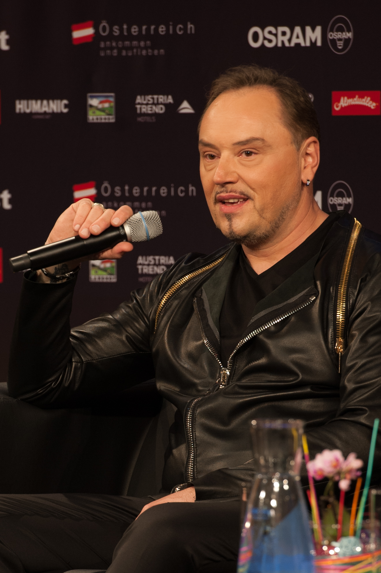 Eurovision Song Contest Vienna 2015: Knez